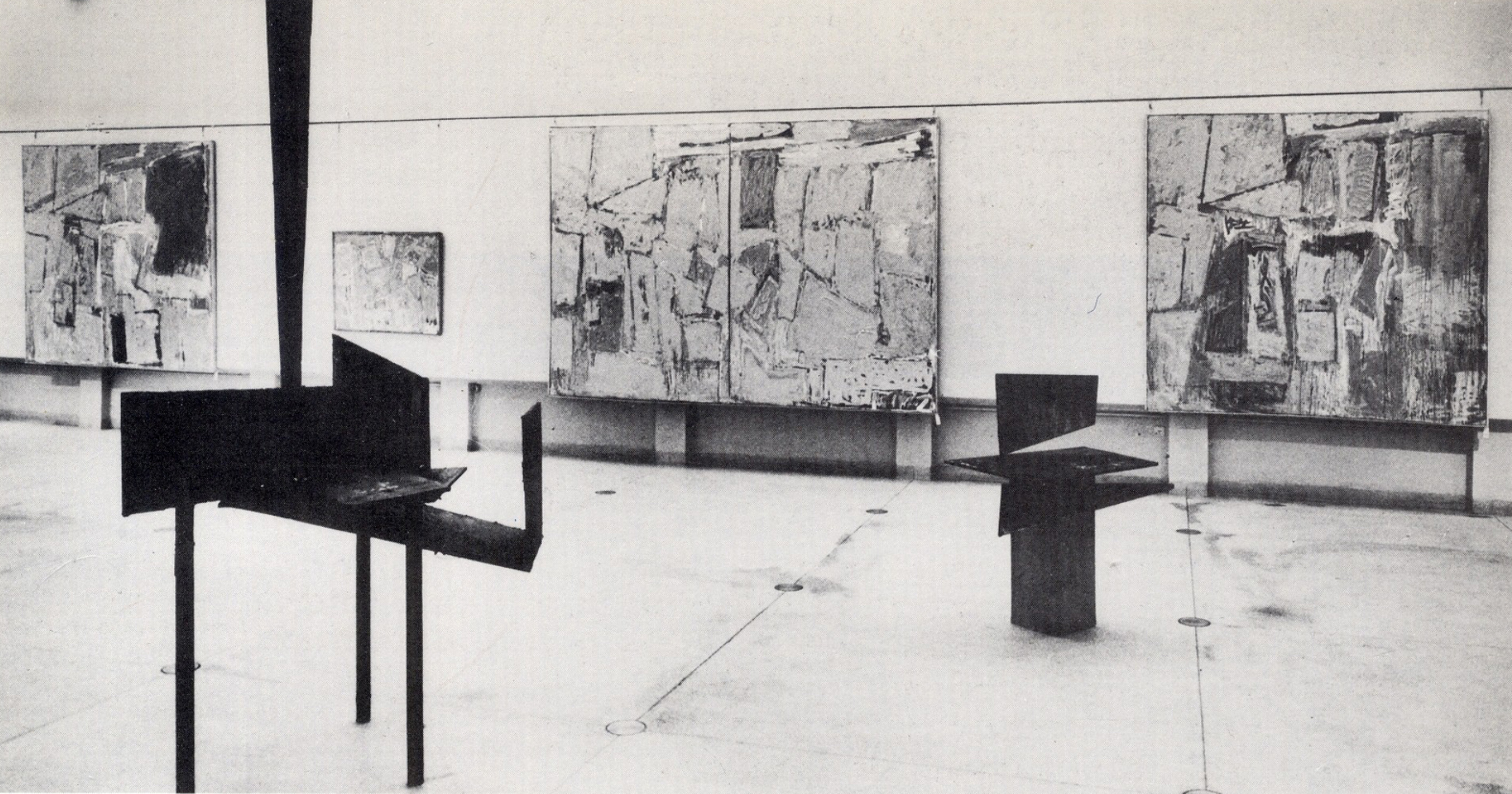 works by Joseph Zaritsky and Itzhak Danziger at the 9th "ofakim hadasim" exebition at the Tel Aviv Museum of Art, april 1959